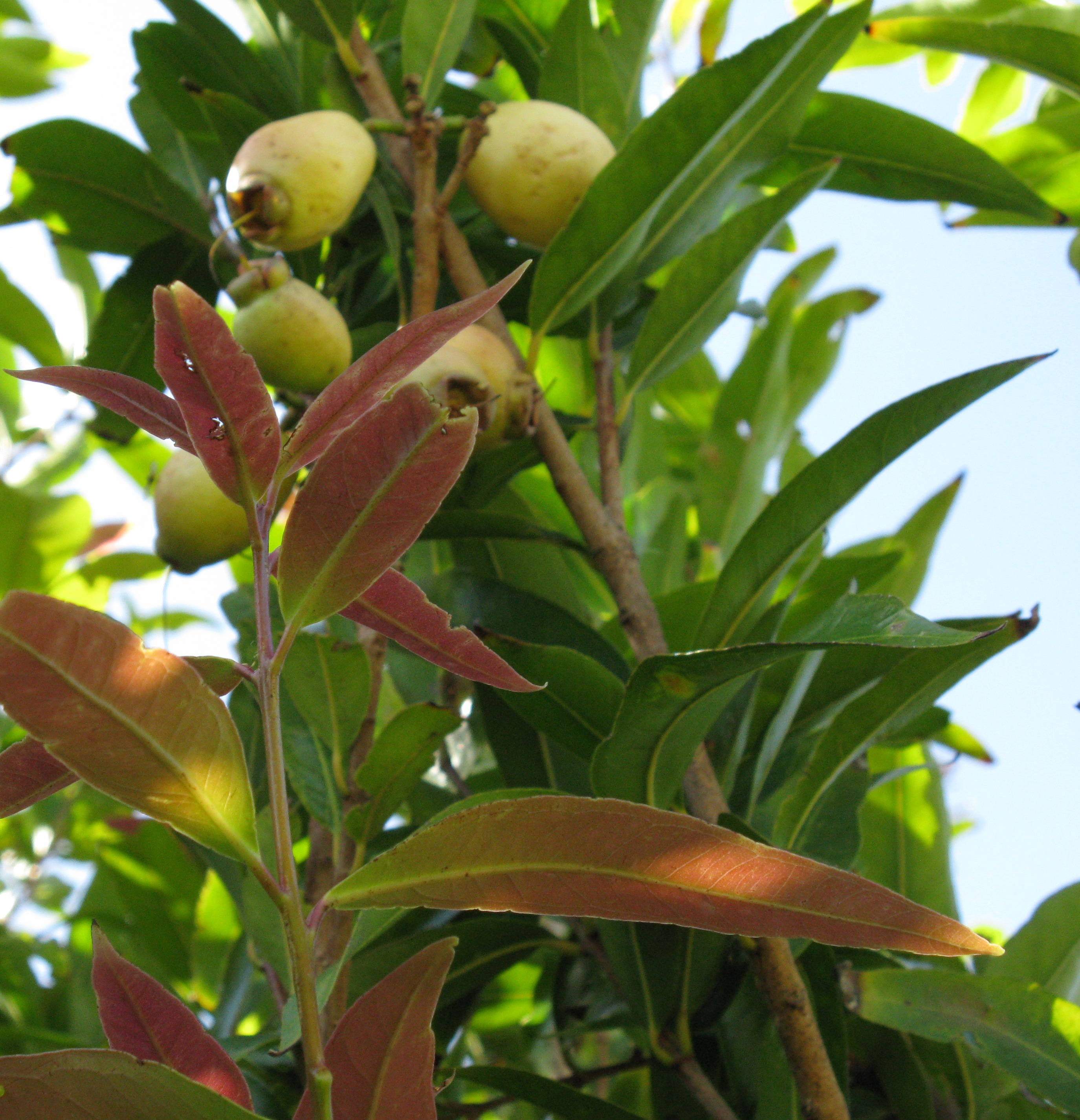 Immature leaves are quite a bright, decorative red.